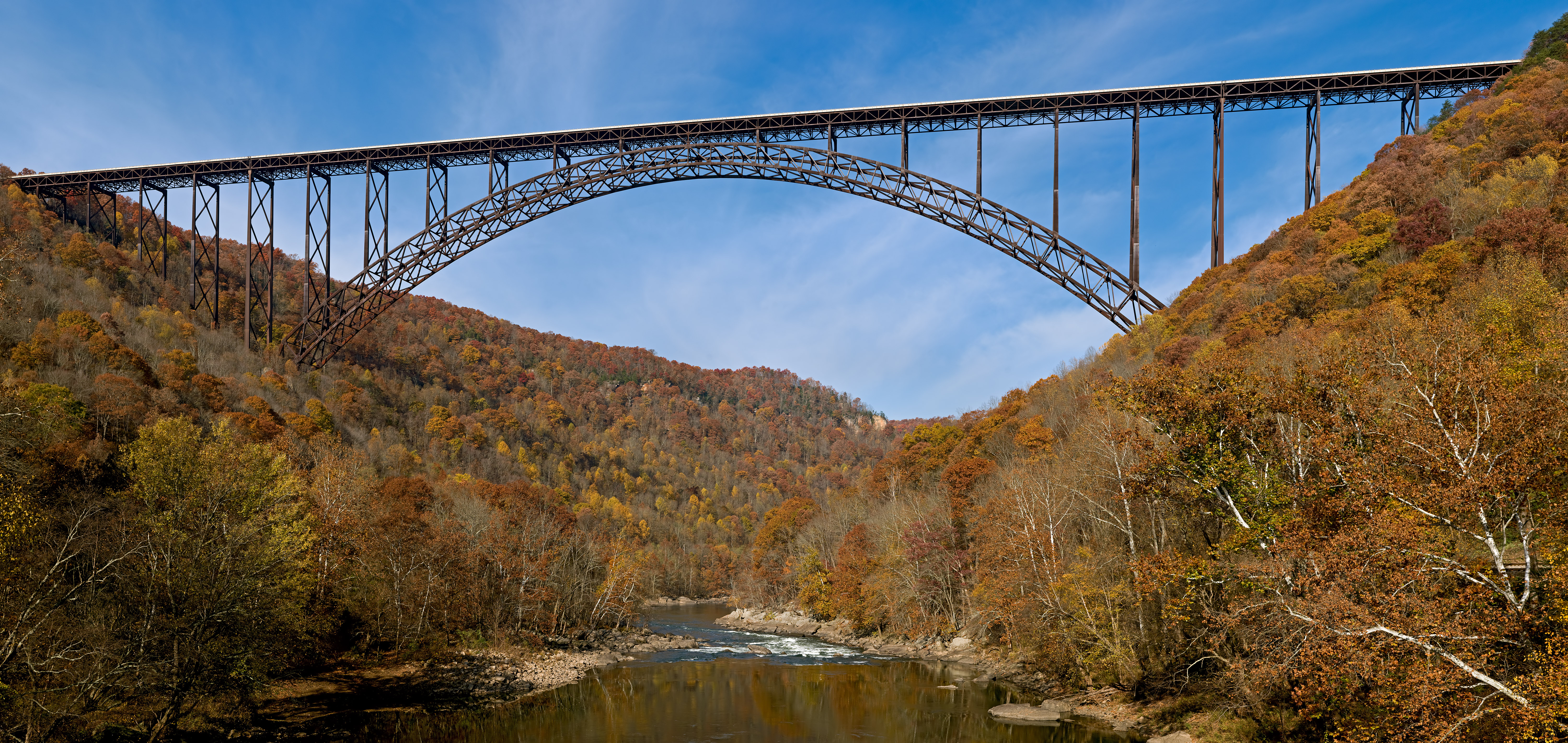 The New River Gorge Bridge in Fayetteville, West Virginia is a steel arch bridge that carries US 19 over the New River. It opened in 1977 and is the longest and highest steel arch bridge in the Western Hemisphere at 3030 ft (924 m) long and 876 ft (267 m) high. The bridge hosts Bridge Day, an annual event in which it closes to vehicles, and participants are allowed to BASE jump to the valley floor below.